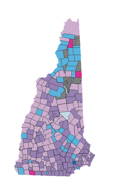 Largest reported ancestral groups in New Hampshire by town. Dark purple indicates Irish, light purple indicates English, turquoise indicates French, pink indicates French Canadian, dark blue indicates Italian, and light blue indicates German.